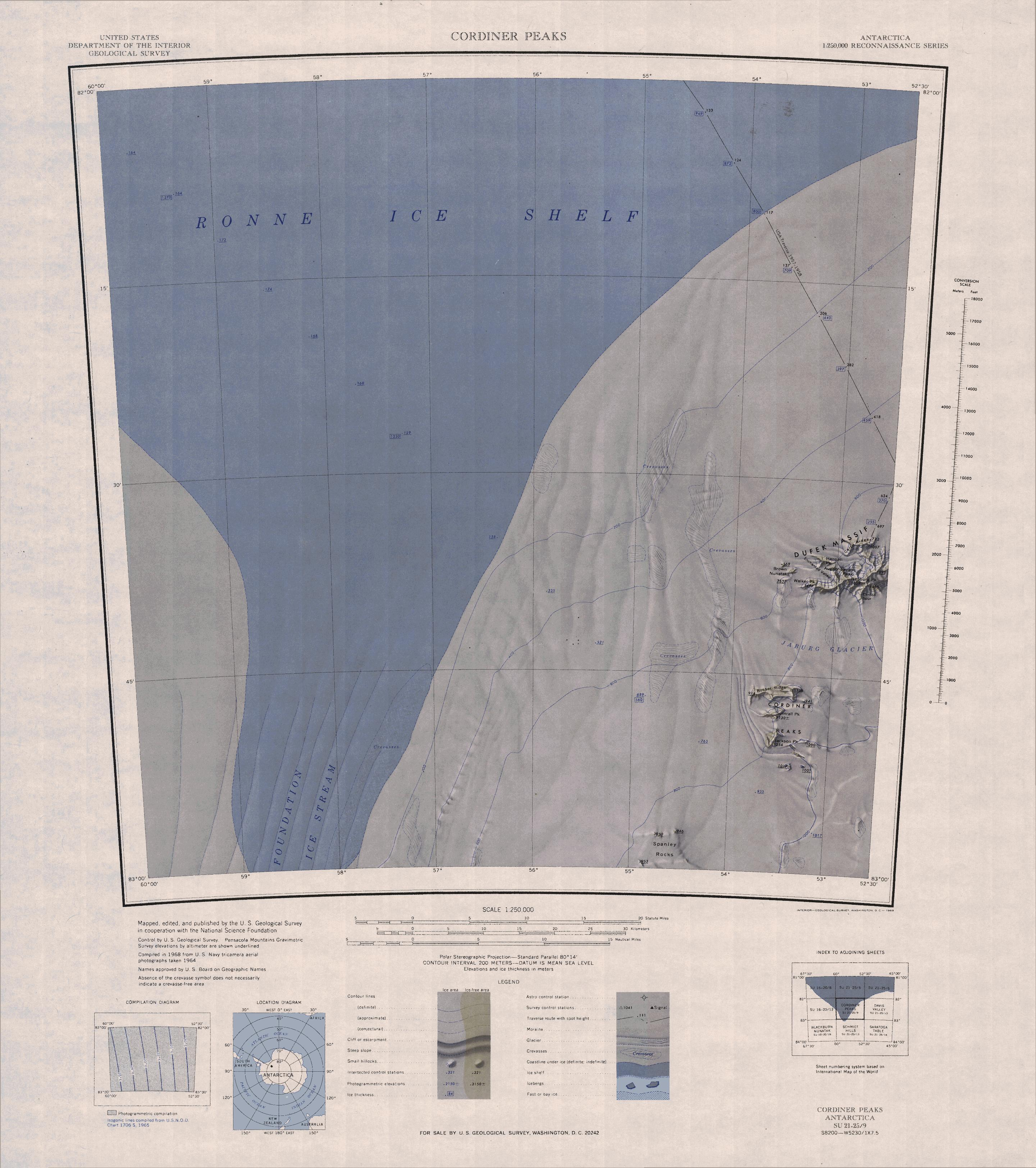 Map of Antarctica by the United States Antarctic Resource Center of the US Geological Society.